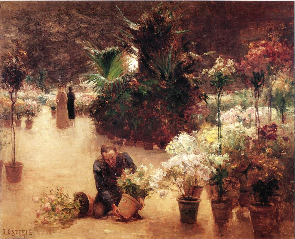 Flower Mart